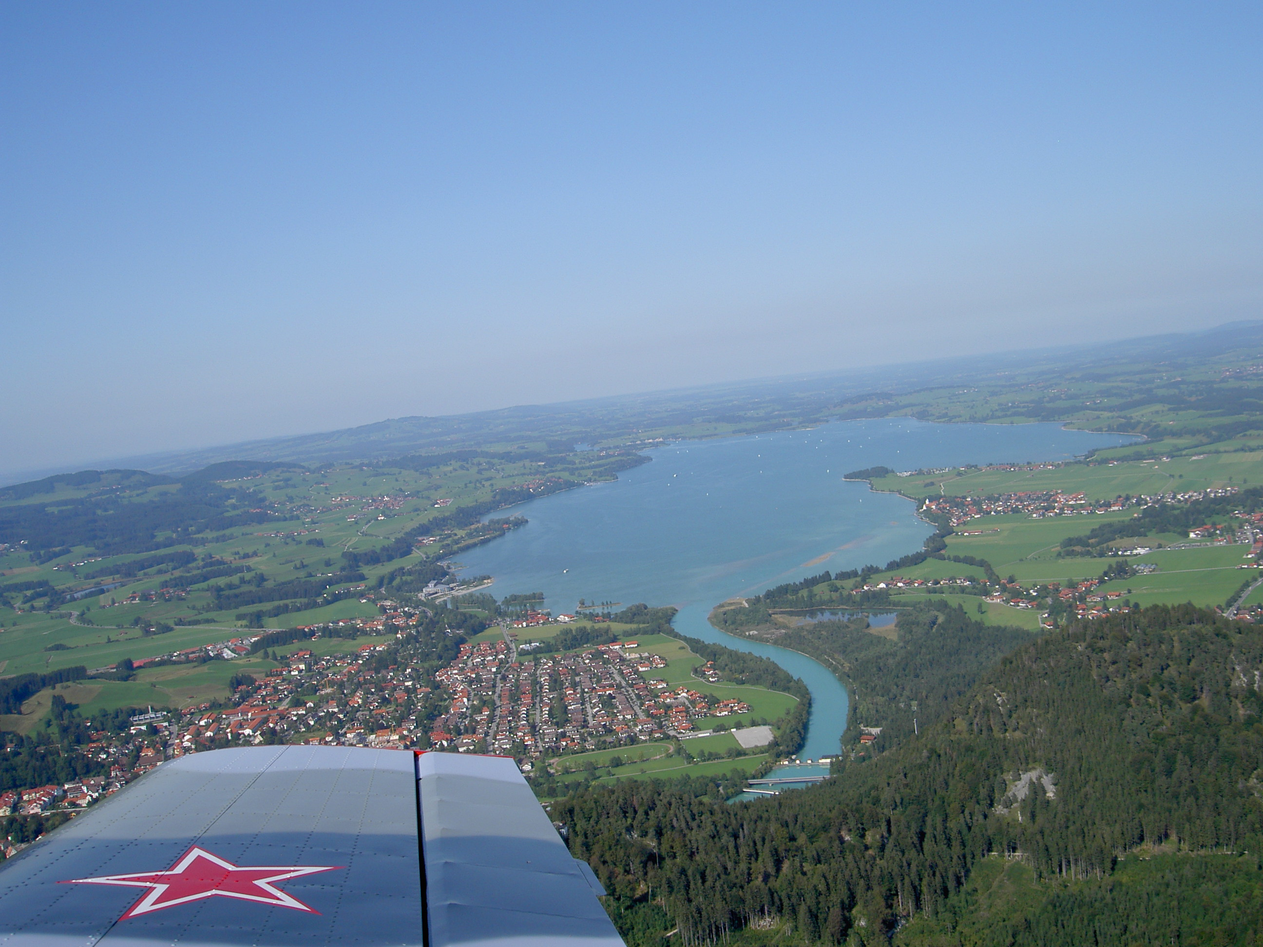 lake Forggensee, city Füssen, river Lech from S, picture taken from plane